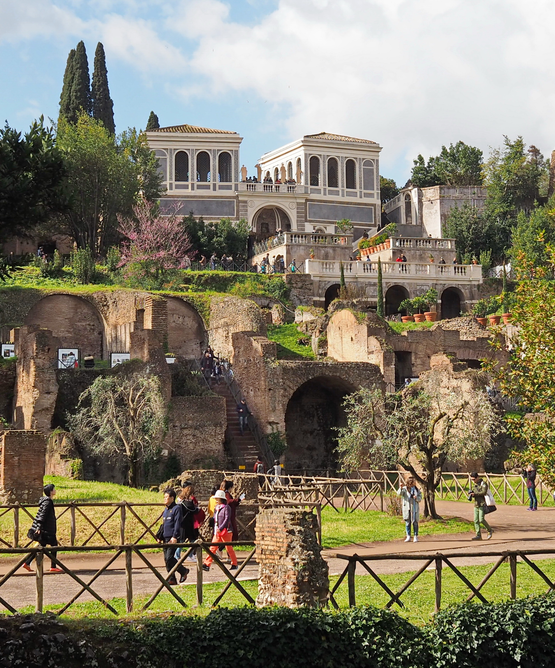 Palatine Hill (Rome); Farnese Ggardens